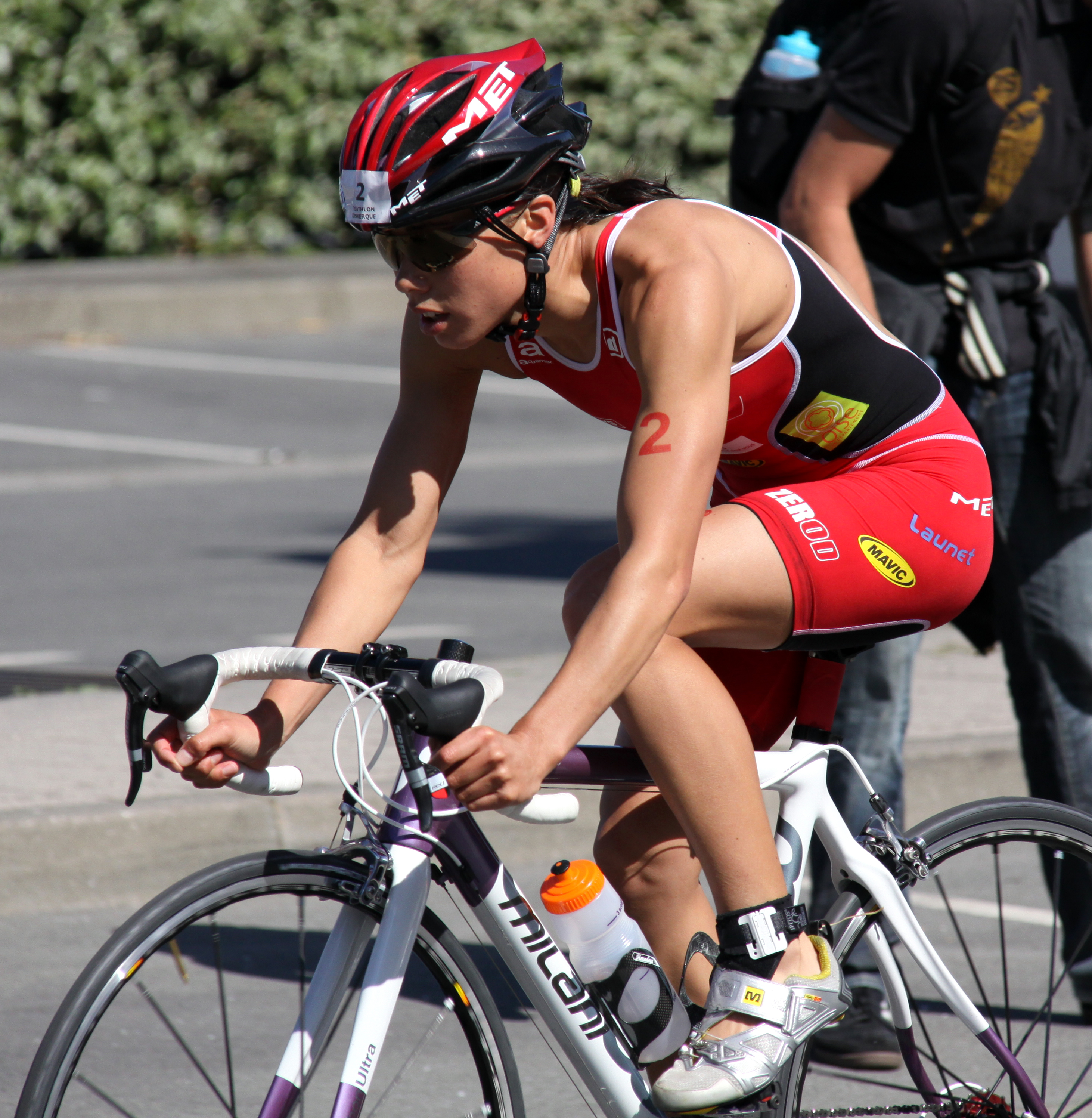 Andrea Hewitt at the Triathlon de Dunkerque 2010 (Grand Prix de Triathlon Lyonnaise des Eaux)